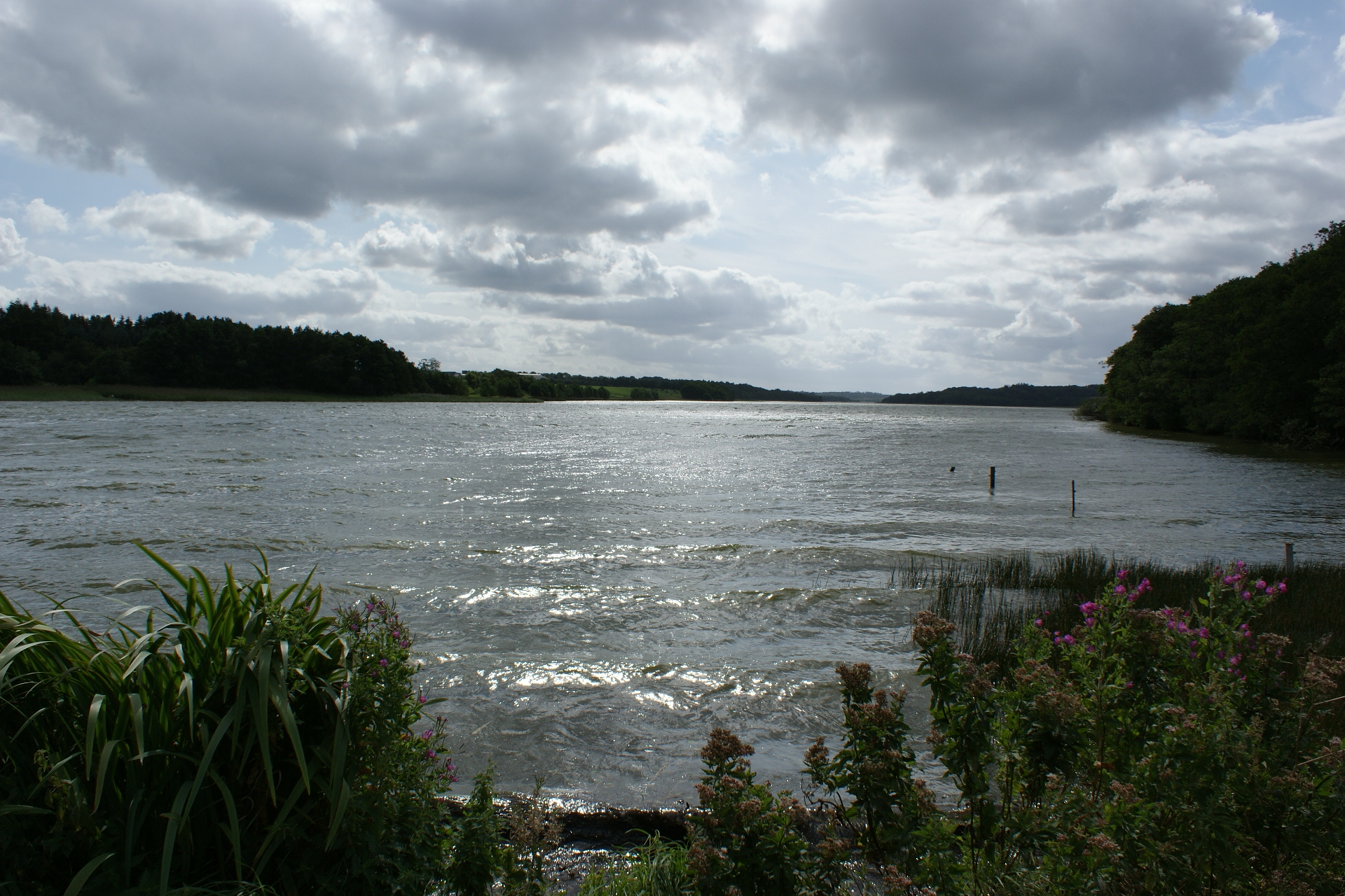 The Danish lake, Tjele langsø, seen from the east